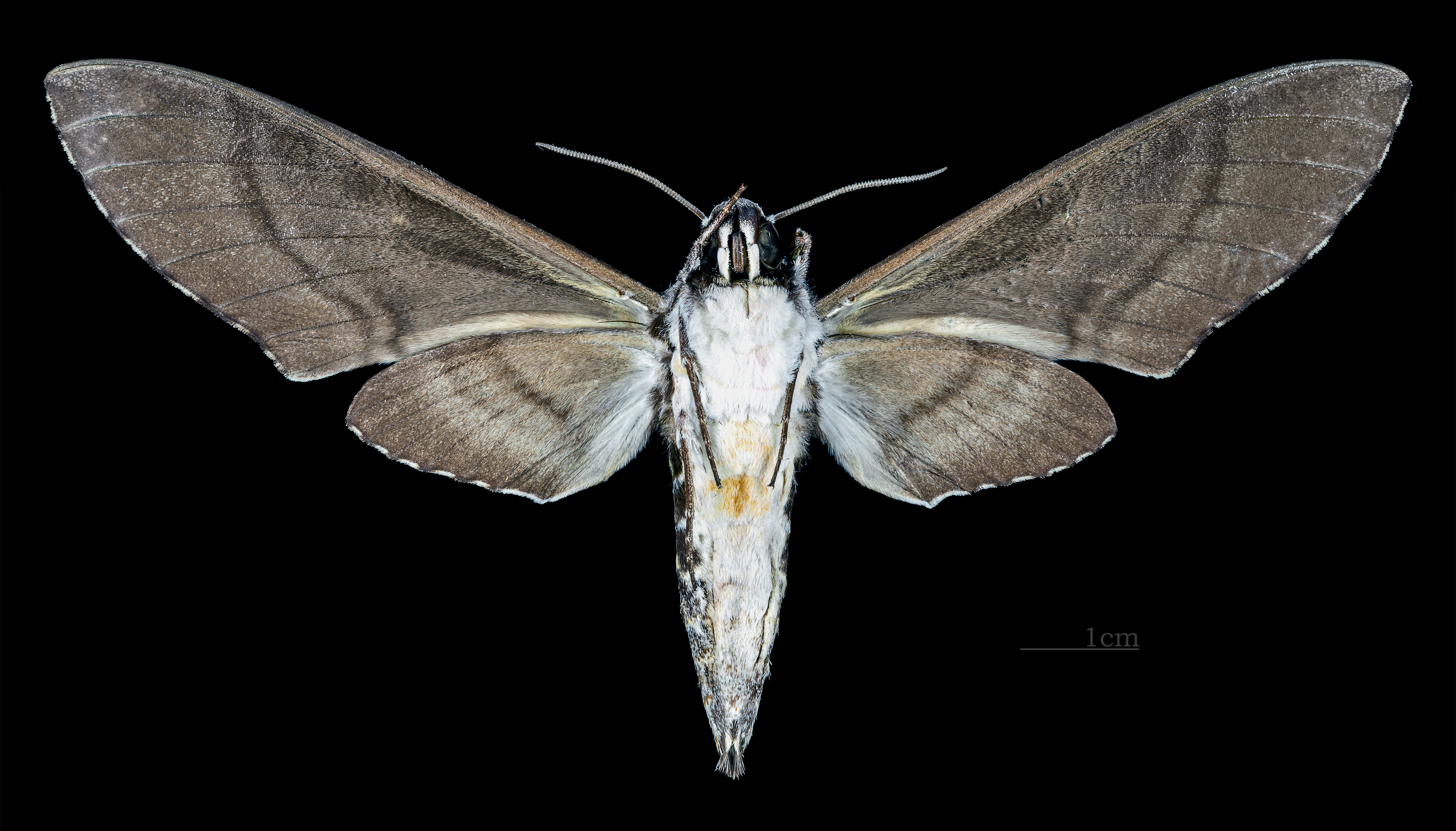 Manduca andicola - △ Ventral side